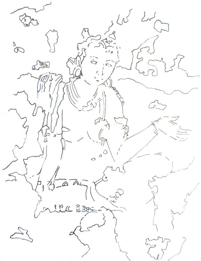 Drawing of an ancient painting found from Vessagiriya caves, Anuradhapura, Sri Lanka, depicting a seated woman. Belongs to Anuradhapura era.